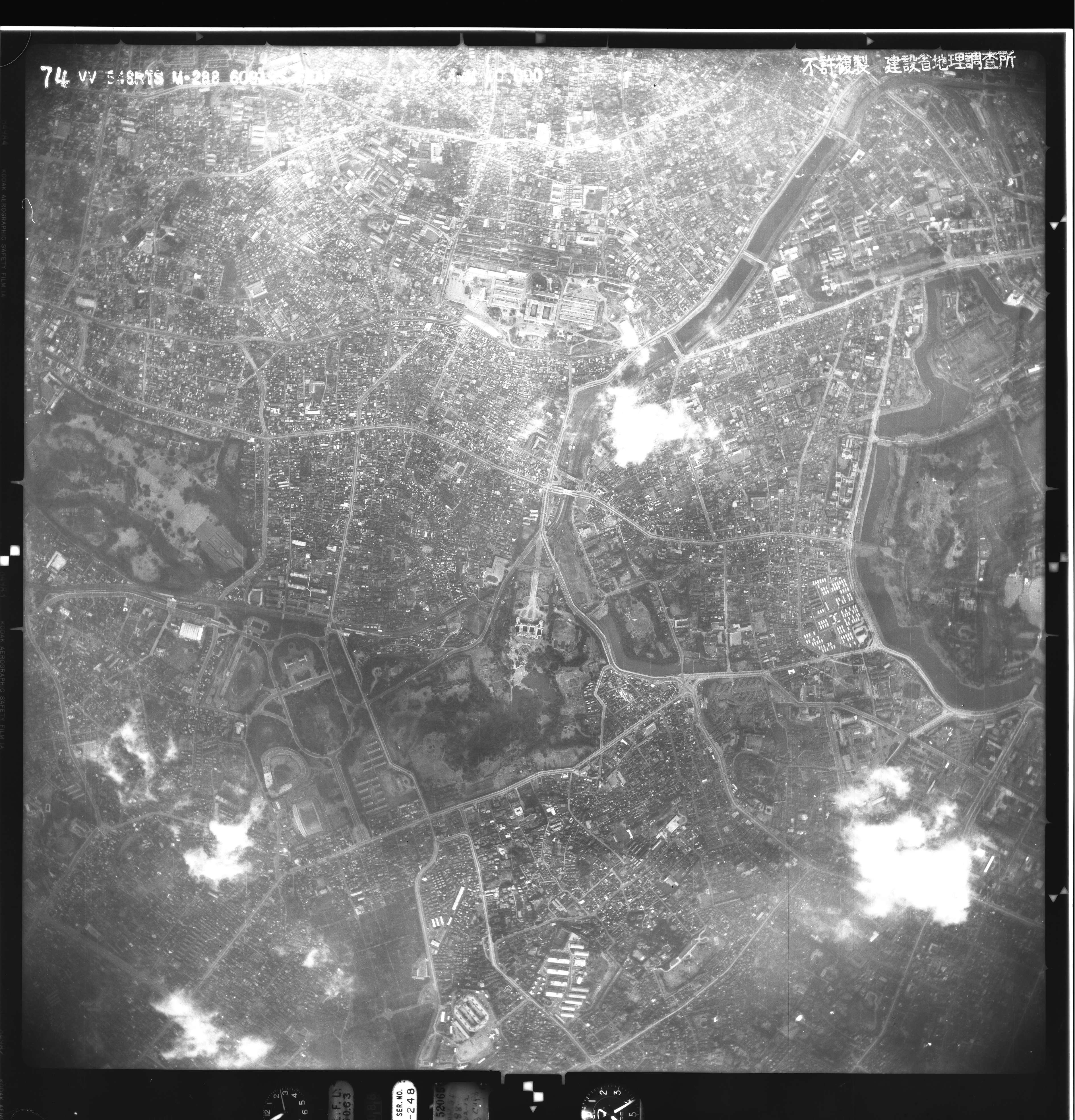 Aerial photo around Shinjuku Gyoen